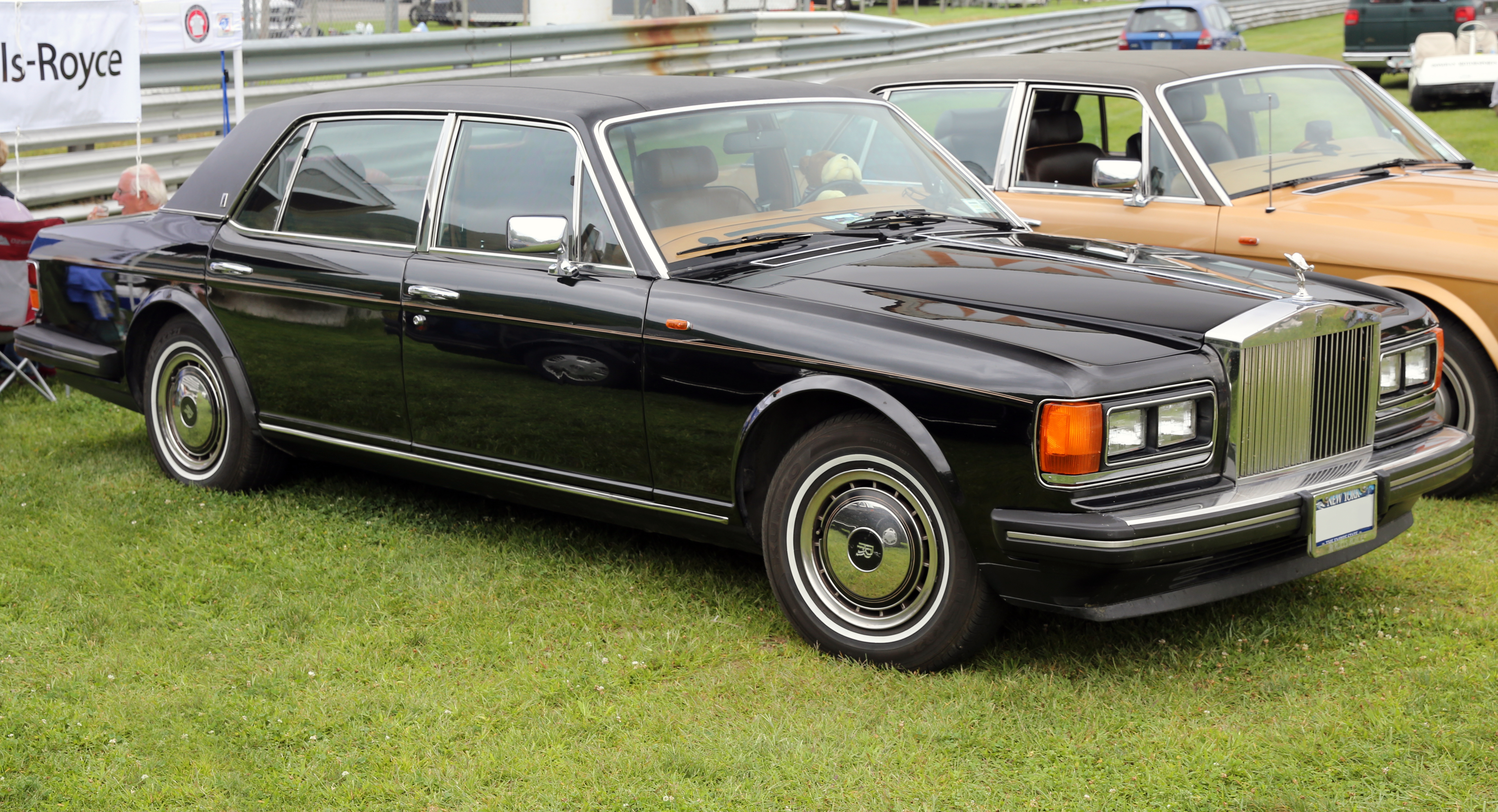 A 1990 Rolls-Royce Silver Spur II at the 2014 Lime Rock Concours d'Élegance. Original US-spec car, with a catalytic converter driver's side airbag, as well as the loathsome sealed-beam headlamps.